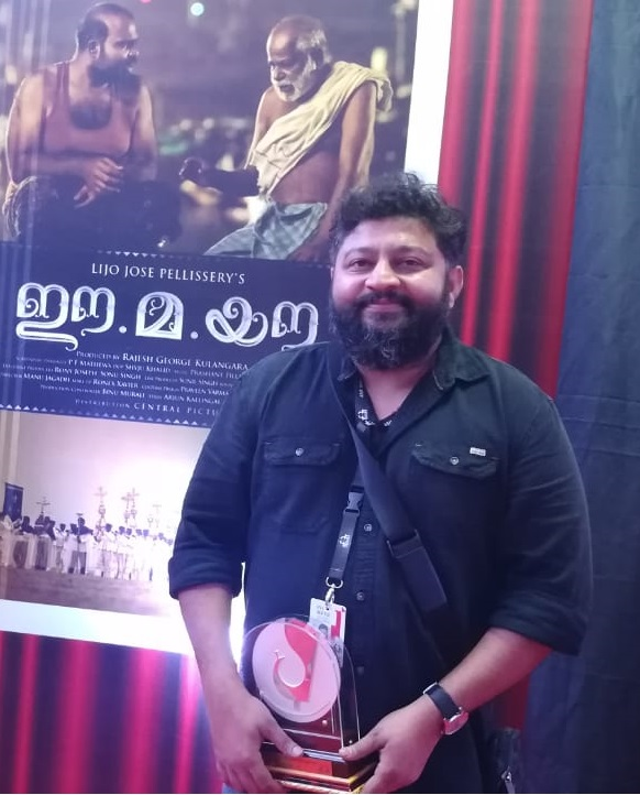 This was a mobile phone image capture of Lijo Jose Pellissery at the 49th International Film Festival of India, Goa